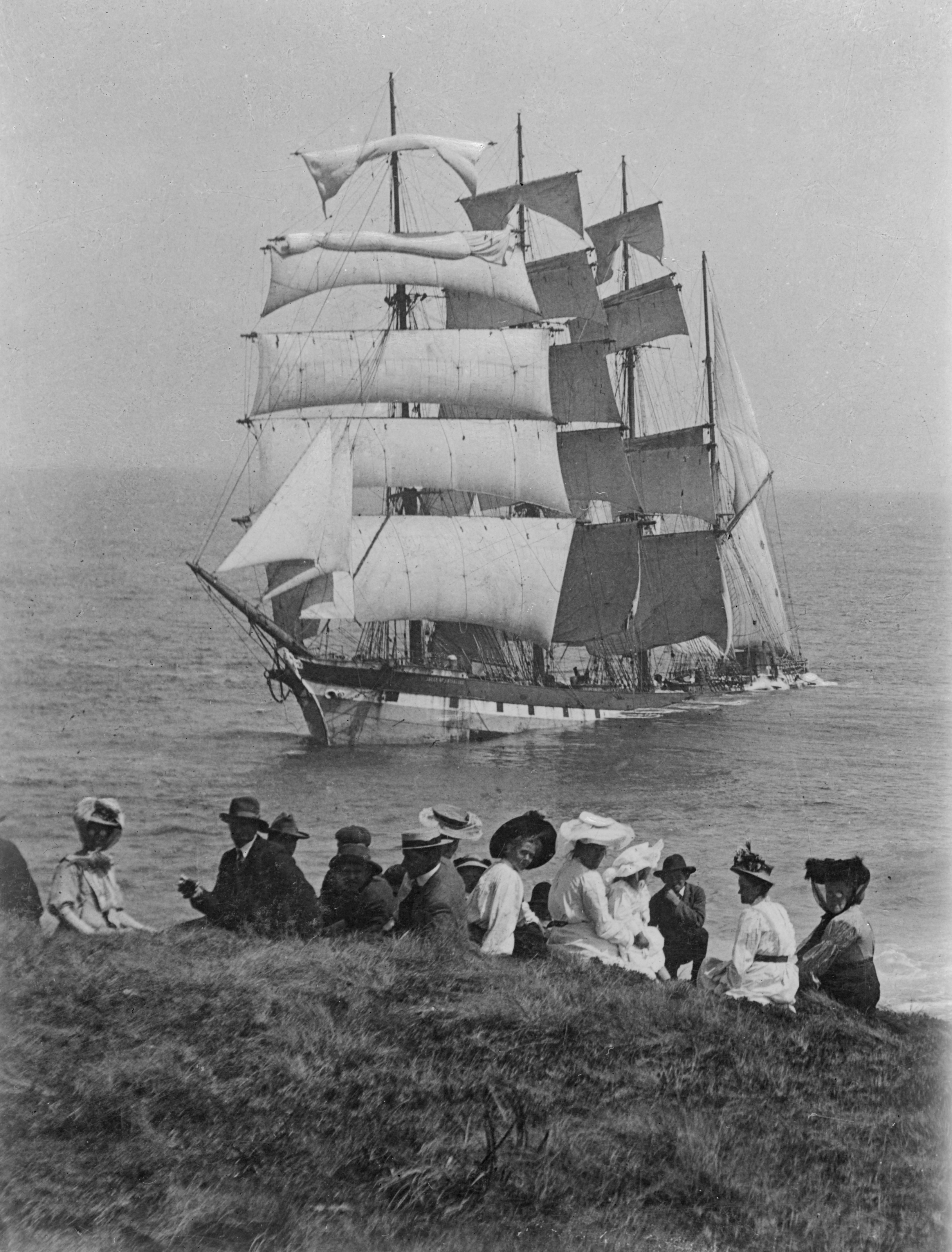 History 1886 Named: Falls of Halladale for the Falls Line (Wright, Breakenridge & Co., Glasgow, Scotland) 14.11.1908 Wrecked near Peterborough, on the shipwreck coast of Victoria, Australia. She was sailed in dense fog directly onto the rocks due to a navigational error Ship Type: four-masted iron-hulled barque Built by Russell & Co., Greenock on the River Clyde, United Kingdom Yard No: Length: 83,87 m Beam: 12,64 m Draft: 7,23 m GRT: 2085 NRT: 2026 Crew: 29